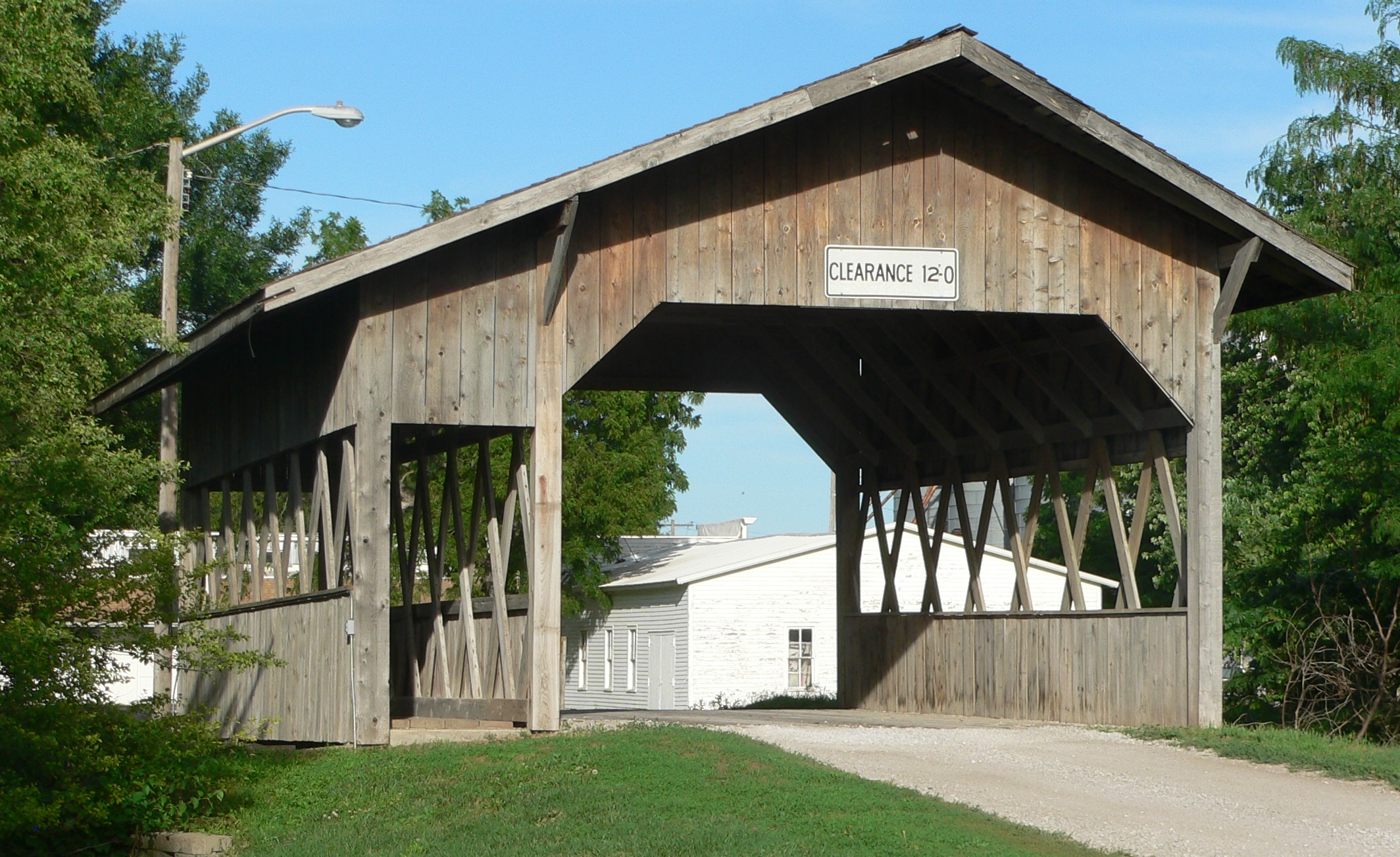 Covered bridge in Cook, Nebraska; seen from the west.